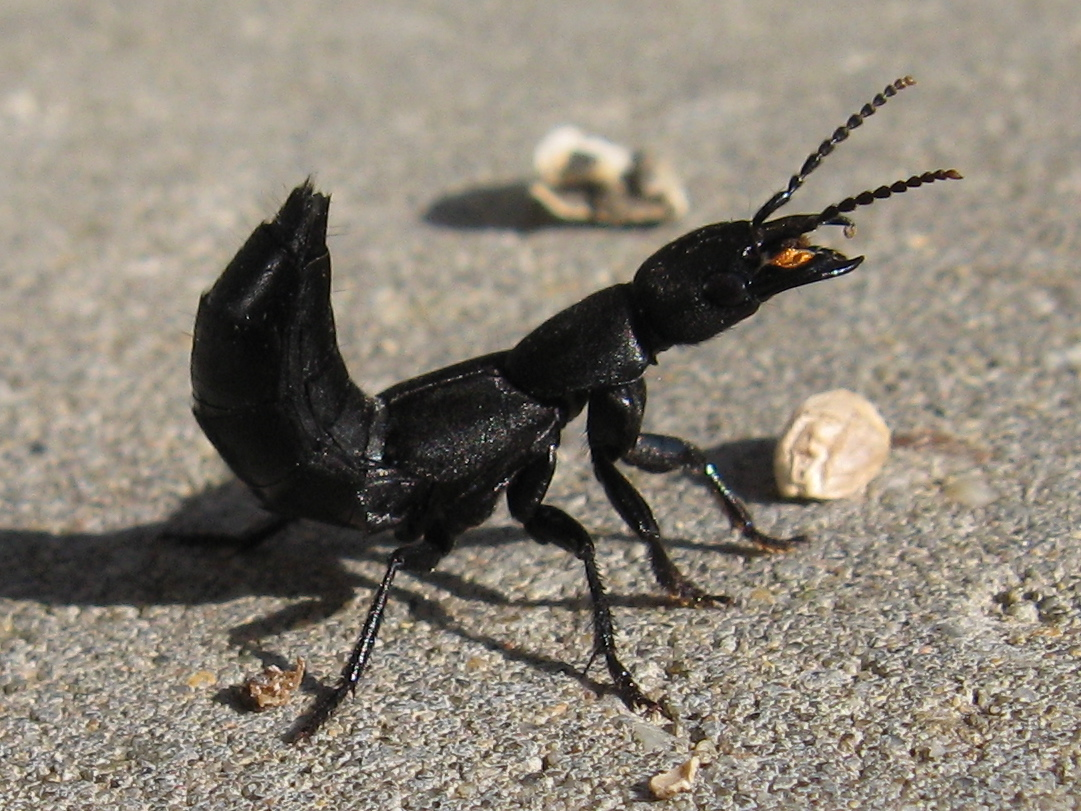 Staphylinus olens